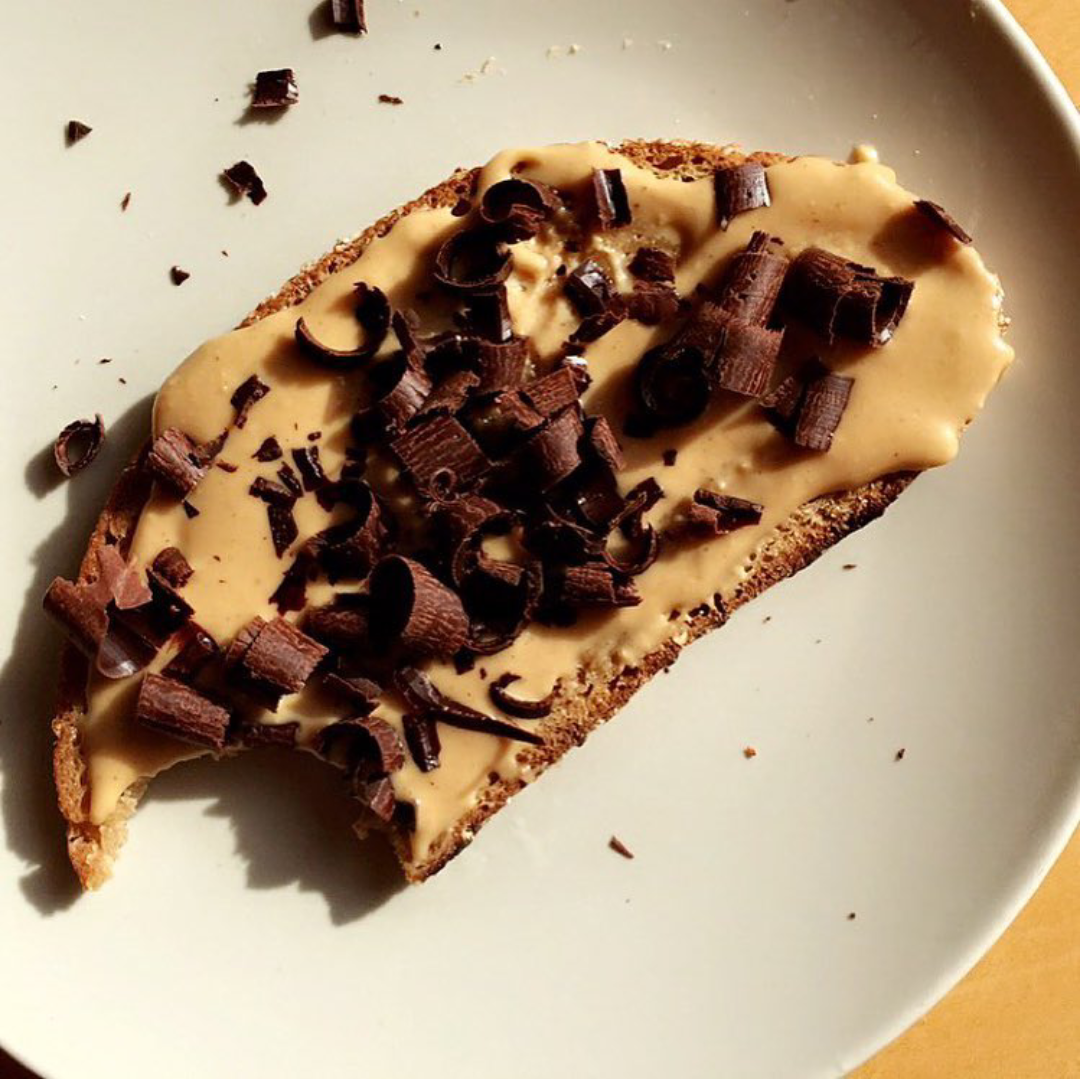 Peanut butter sandwich with grated chocolate. A bite is taken. It is placed on a grayish plate